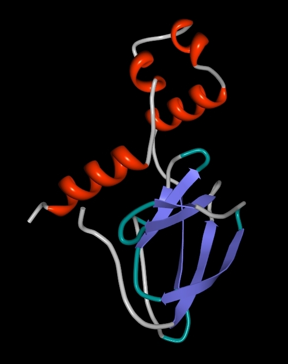 model of VHL protein with backbone recolored by compounds (red = helix, gray=coil, blue=strand, green=turn. Data from Min, JH, Yang, H, Ivan, M, Gertler, F, Kaelin Jr, WG, Pavletich, NP. Structure of an HIF-1alpha-pVHL complex: hydroxyproline recognition in signaling. Science. 296, 5574, 1886-1889. 2002. PMID 12004076. (PDBid=1LM8), made using MBT Protein Workshop.